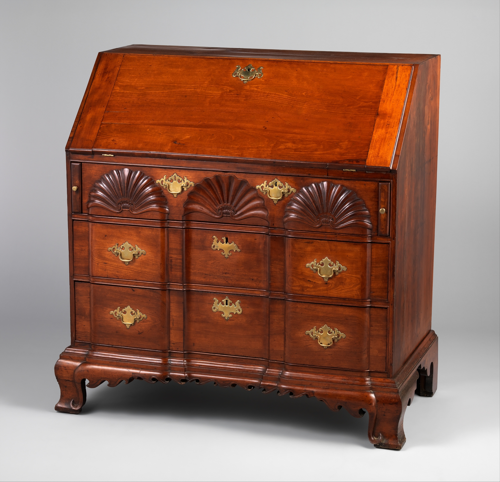 American; Desk; Furniture